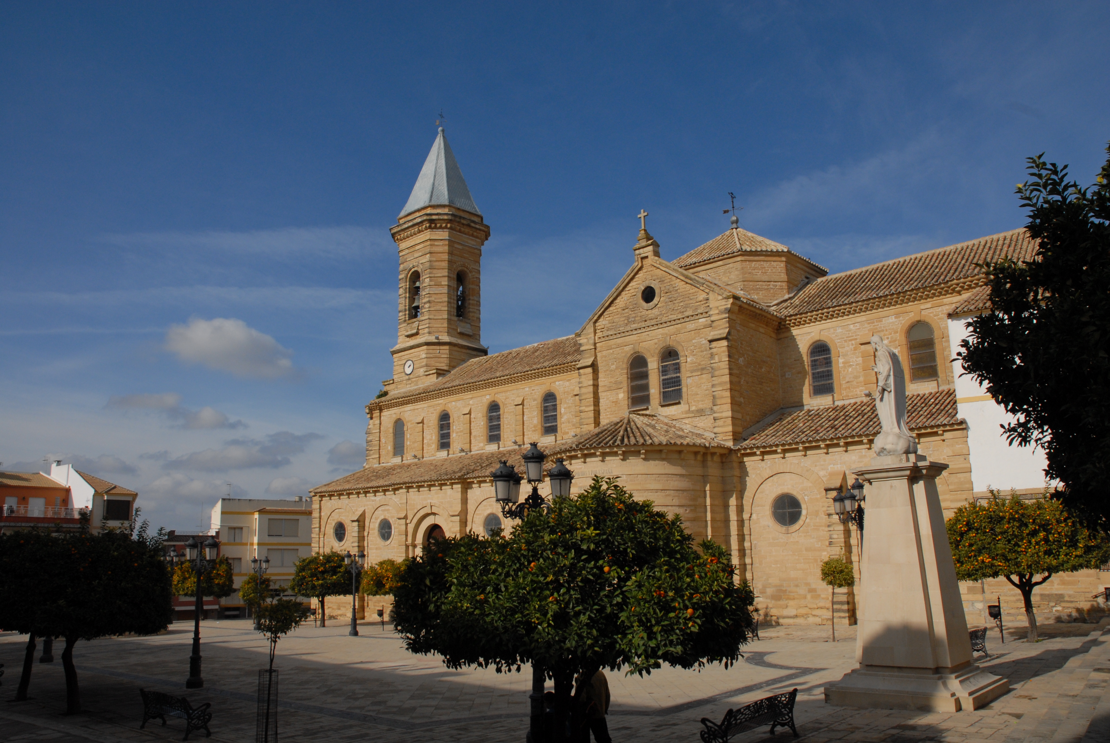 Main church "Our Lady of the Elevation" at Porcuna, and surrounding main place of the city